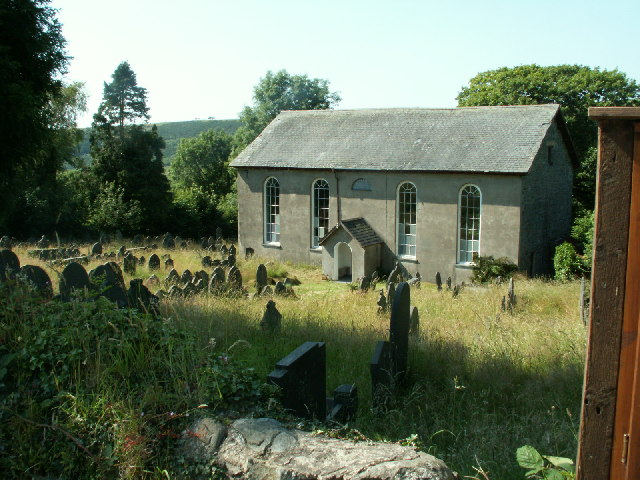 Capel Salem. The chapel in Salem, Coed Gruffydd, near Penrhyncoch, built in 1824 as an Independent chapel. Rebuilt 1850 and extended in 1864.